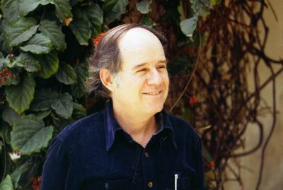 Photograph